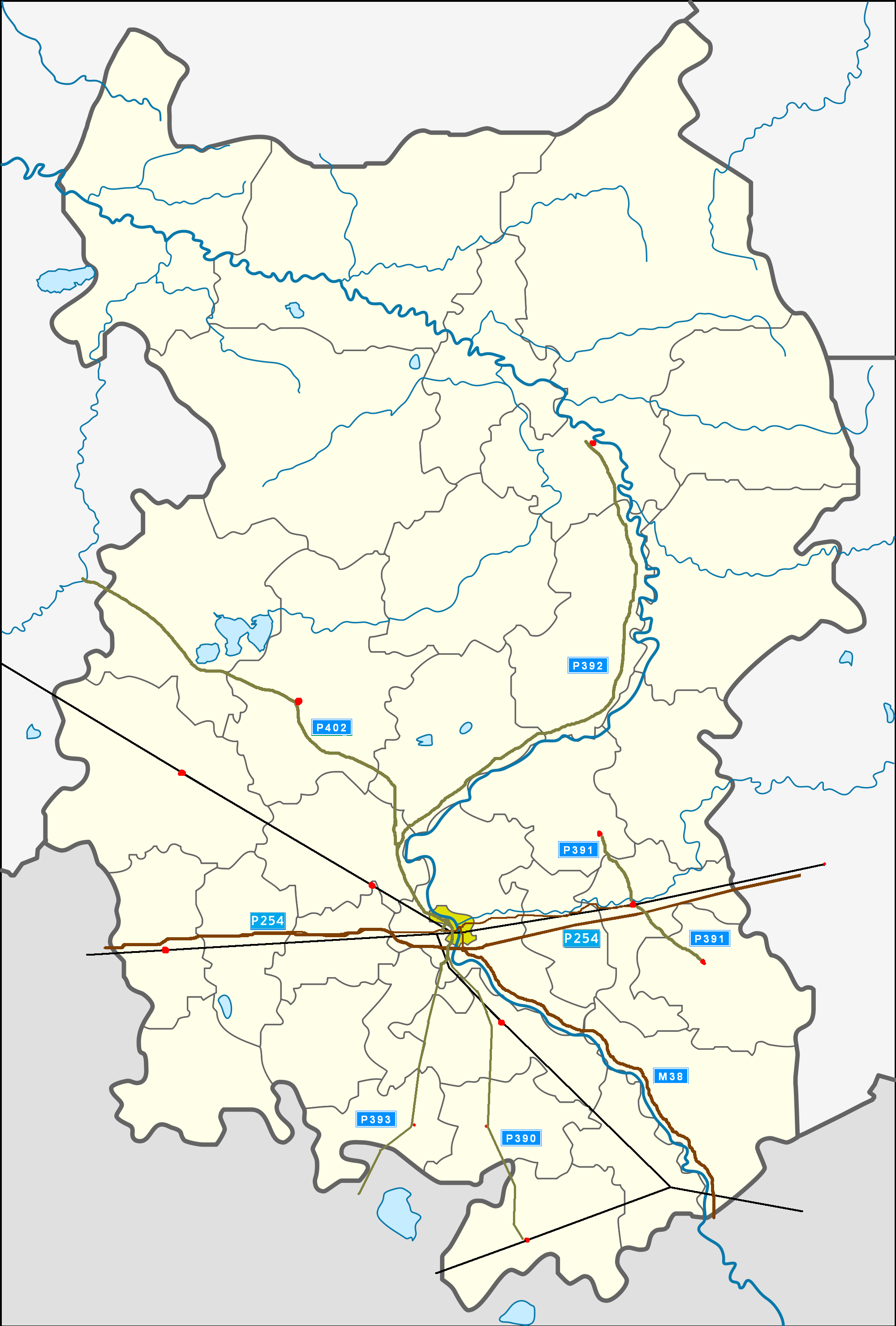 Transport in Omsk Oblast